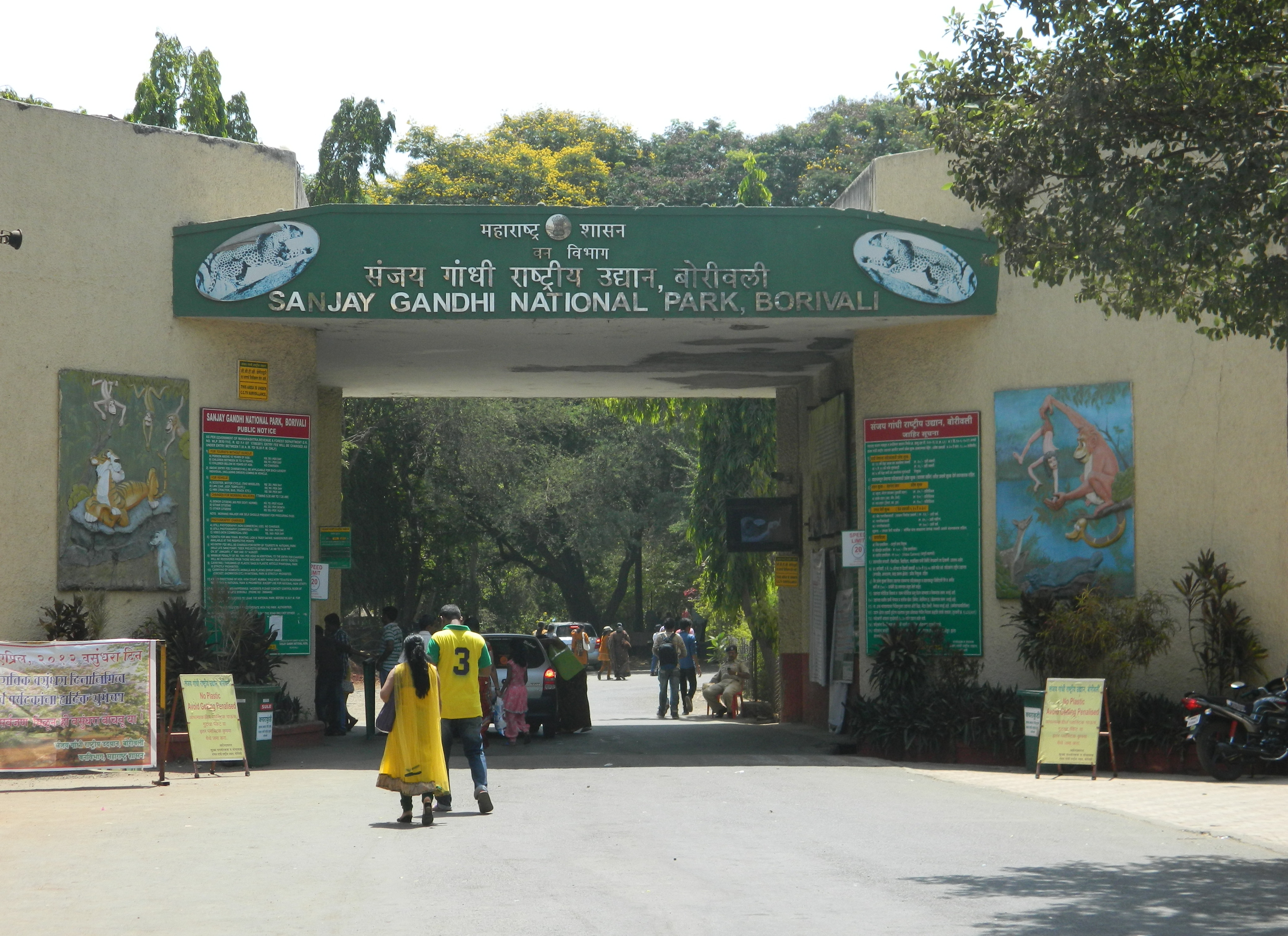 Main gate entry to the park